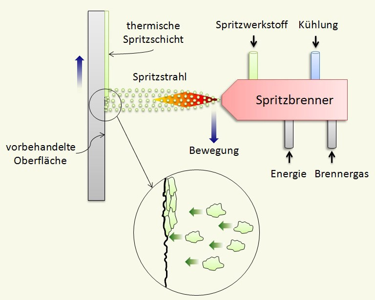 Thermal Spray Coating: High-duty thermal sprayed coatings are used for protection from corrosion and abrasion, for specific thermal and electric characteristics, for surface finishing and decorative purposes.